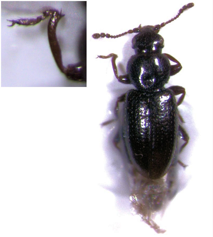 adult male Corticaria formicaephila group, species indet. (macropterous)